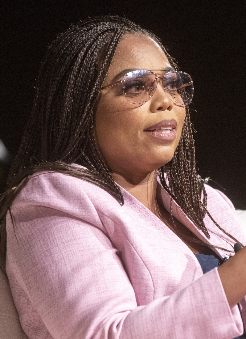 On Thursday, January 9, 2020, the LBJ Foundation and The University of Texas Heman Sweatt Center for Black Males presented A Conversation With Jemele Hill, the keynote conclusion to UT's 2020 Black Student-Athlete Summit.